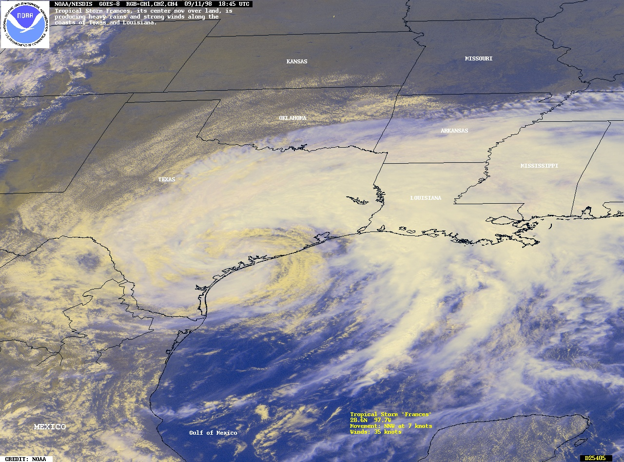 This image shows Tropical Storm Frances just after its Texas landfall in early September of 1998.